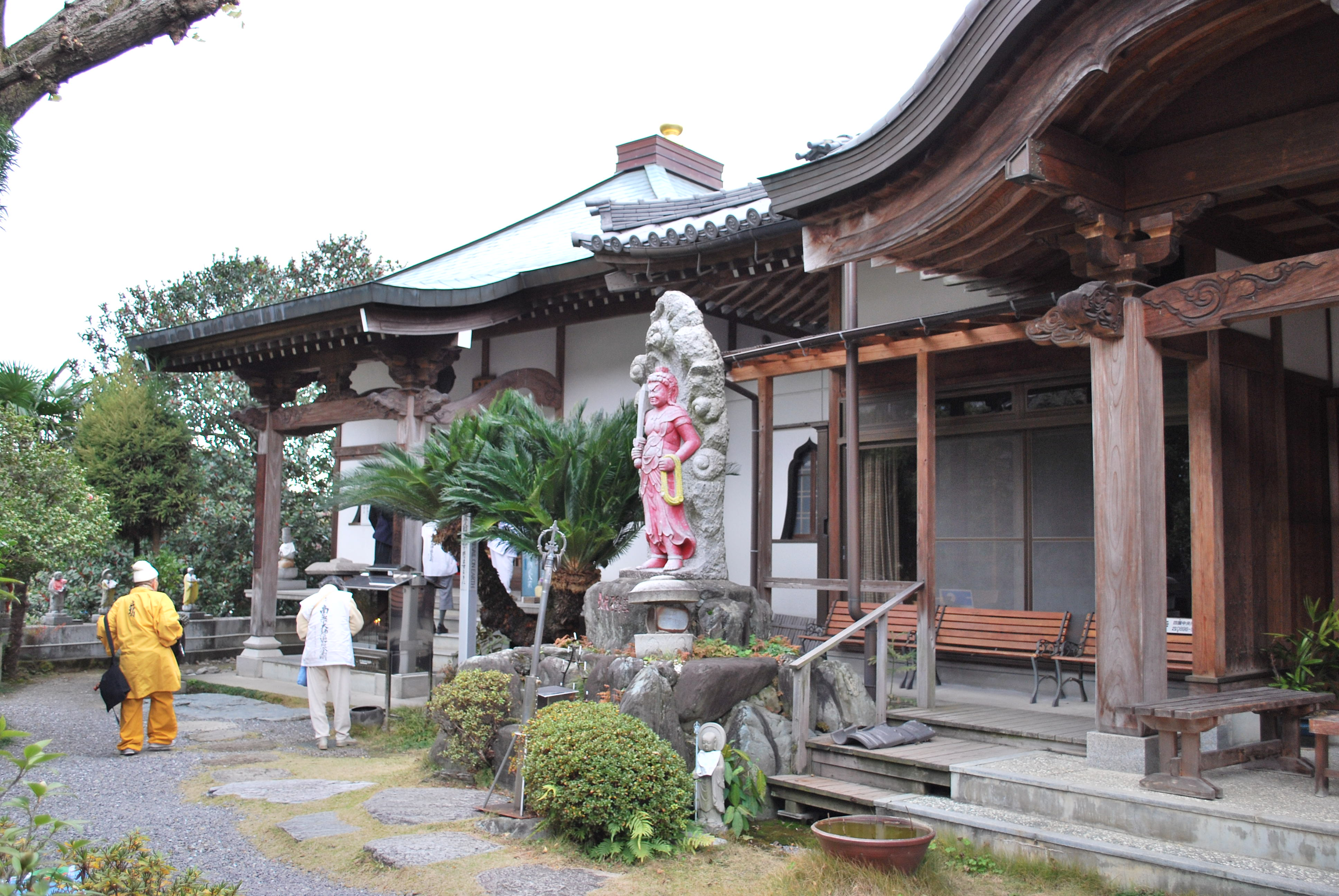 Main temple, Tsubaki-dō